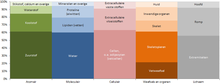 Five-level model of body composition